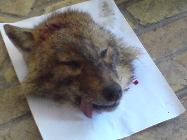 Jackal (head) bite a vilage dog.